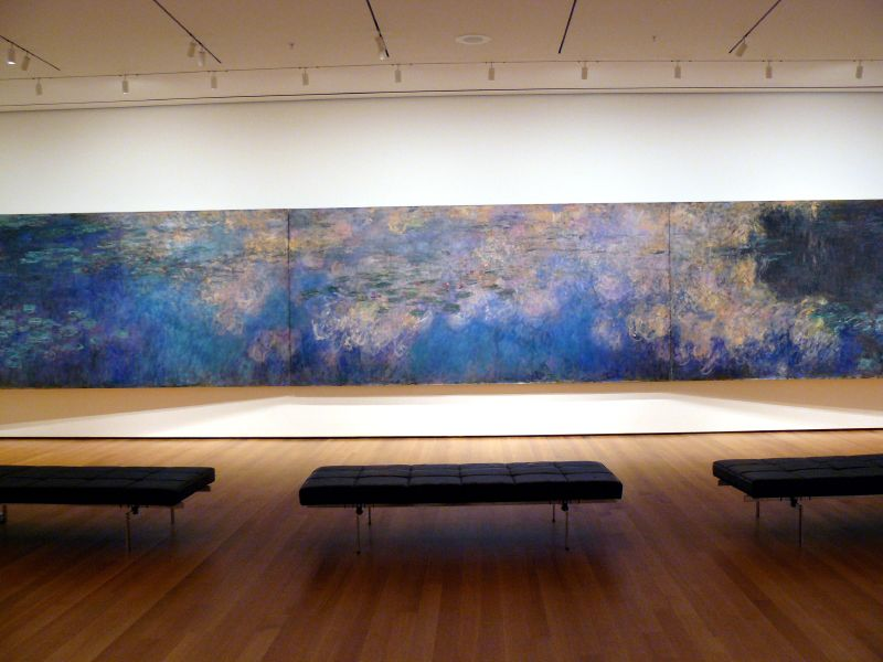 Claude Monet. Reflections of Clouds on the Water-Lily Pond. c. 1920. Oil on canvas, three panels, Each 6' 6 3/4" x 13' 11 1/4" (200 x 424.8 cm), overall 6' 6 3/4" x 41' 10 3/8" (200 x 1276 cm). Mrs. Simon Guggenheim Fund. © 2008 Artists Rights Society (ARS), New York / ADAGP, Paris Wikipedia Loves Art at the Museum of Modern Art This photo of item # 666.1959.a-c at the Museum of Modern Art was contributed under the team name "trish" as part of the Wikipedia Loves Art project in February 2009. Museum of Modern Art The original photograph on Flickr was taken by Trish Mayo—please add a comment to the original Flickr page whenever a use has been made on Wikipedia or another project. Project galleries on Flickr: this institution, this team Claude Monet. Reflections of Clouds on the Water-Lily Pond. c. 1920. Oil on canvas, three panels, Each 6' 6 3/4" x 13' 11 1/4" (200 x 424.8 cm), overall 6' 6 3/4" x 41' 10 3/8" (200 x 1276 cm). Mrs. Simon Guggenheim Fund. © 2008 Artists Rights Society (ARS), New York / ADAGP, Paris Wikipedia Loves Art at the Museum of Modern Art This photo of item # 666.1959.a-c at the Museum of Modern Art was contributed under the team name "trish" as part of the Wikipedia Loves Art project in February 2009. Museum of Modern Art The original photograph on Flickr was taken by Trish Mayo—please add a comment to the original Flickr page whenever a use has been made on Wikipedia or another project. Project galleries on Flickr: this institution, this team